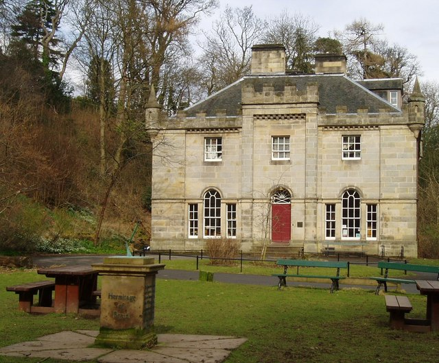 Hermitage House. This house, built in the late 18th century, is now a visitor centre in Hermitage of Braid park. It was for a time used as the home of the Park Superintendent - does this make it a contender for the title of "most elegant park-keeper's house in the country"?